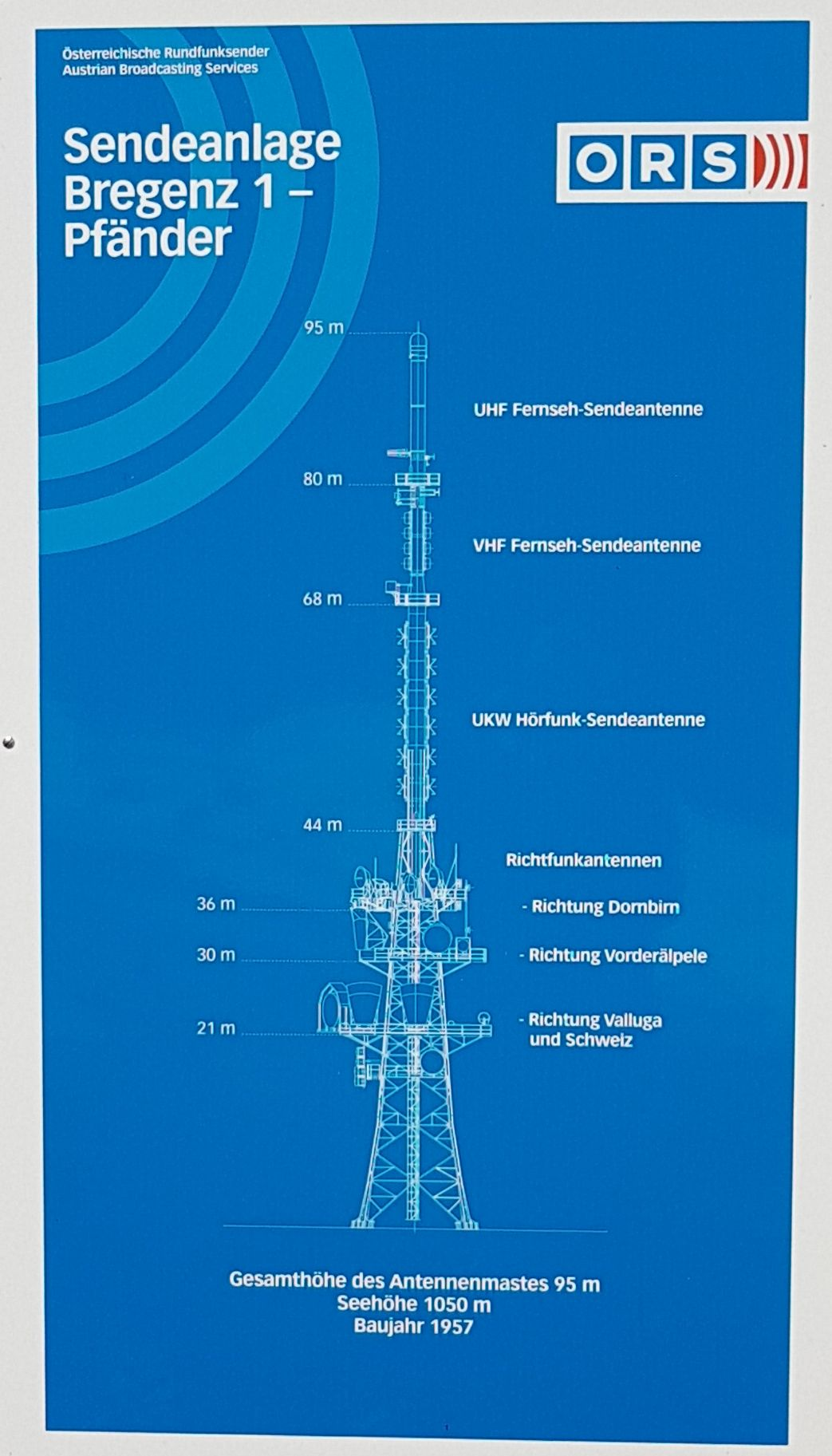 Information board to the ORF transmitter at Pfaender.